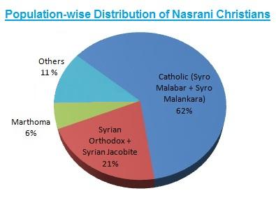 Population-wise Distribution of Nasrani Christians in Kerala